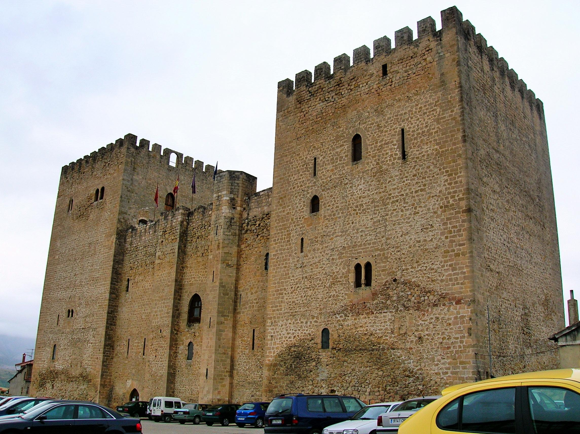 Alcázar de los Condestables, Medina de Pomar (Burgos, Castilla y León, España)